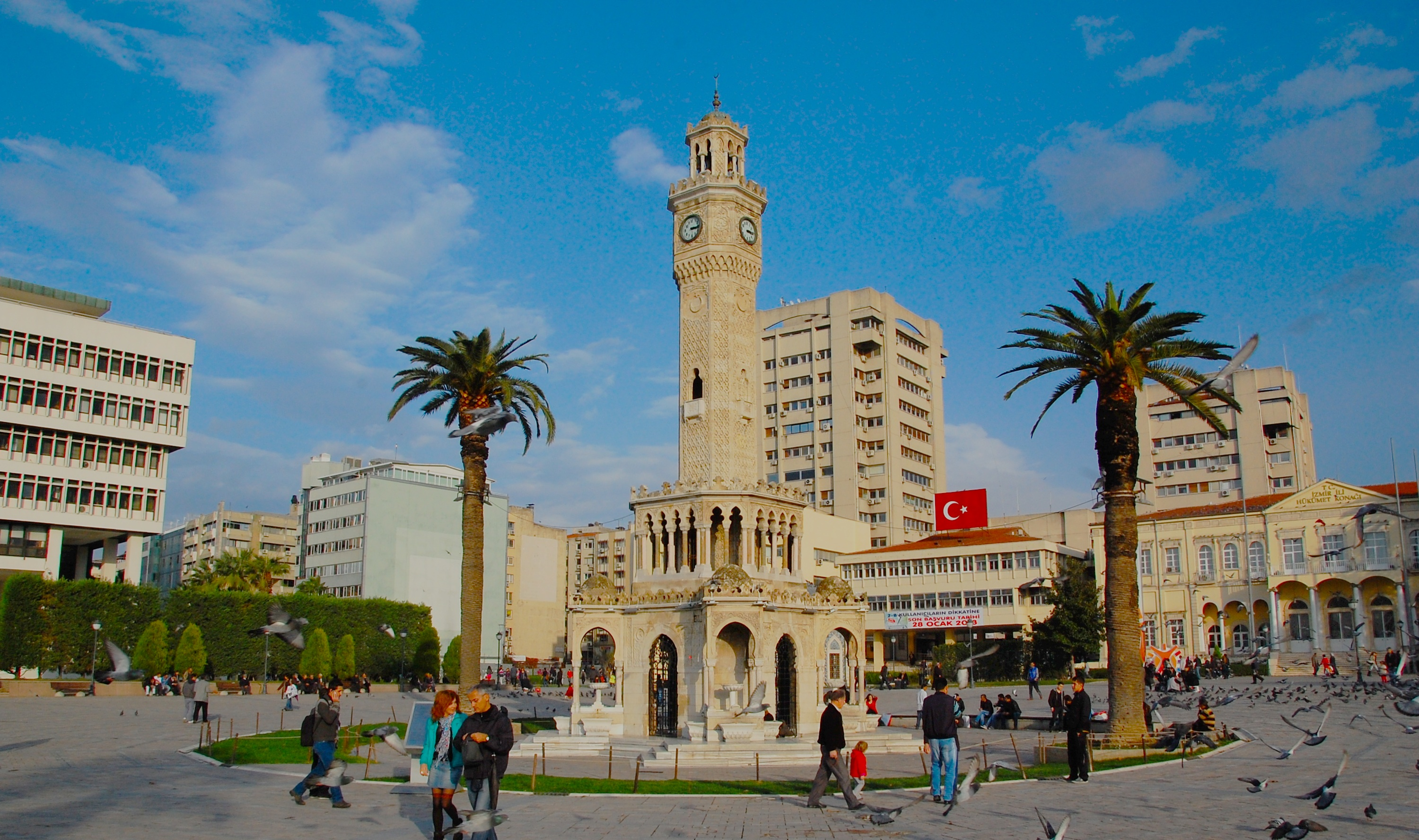 Konak Square and clock tower